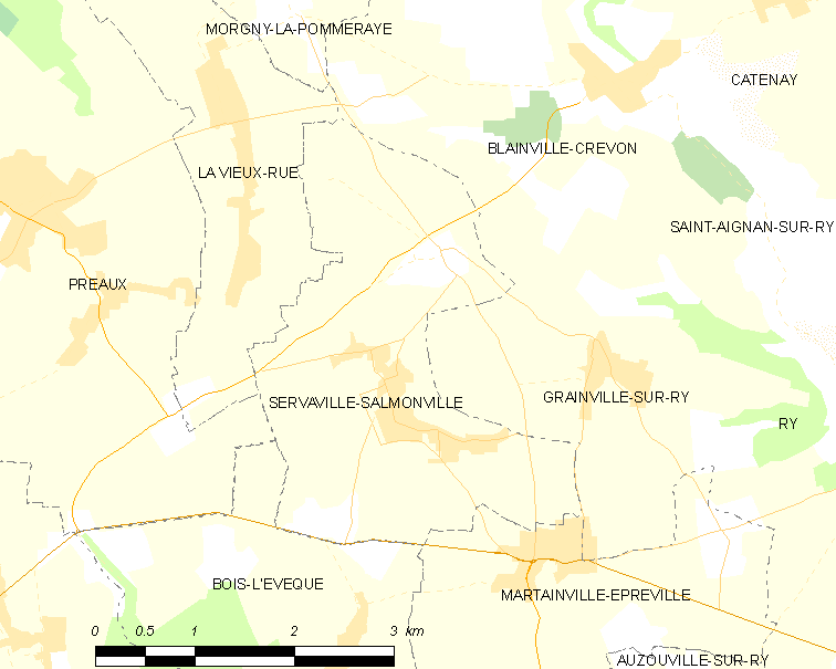 Map of French municipality Servaville-Salmonville